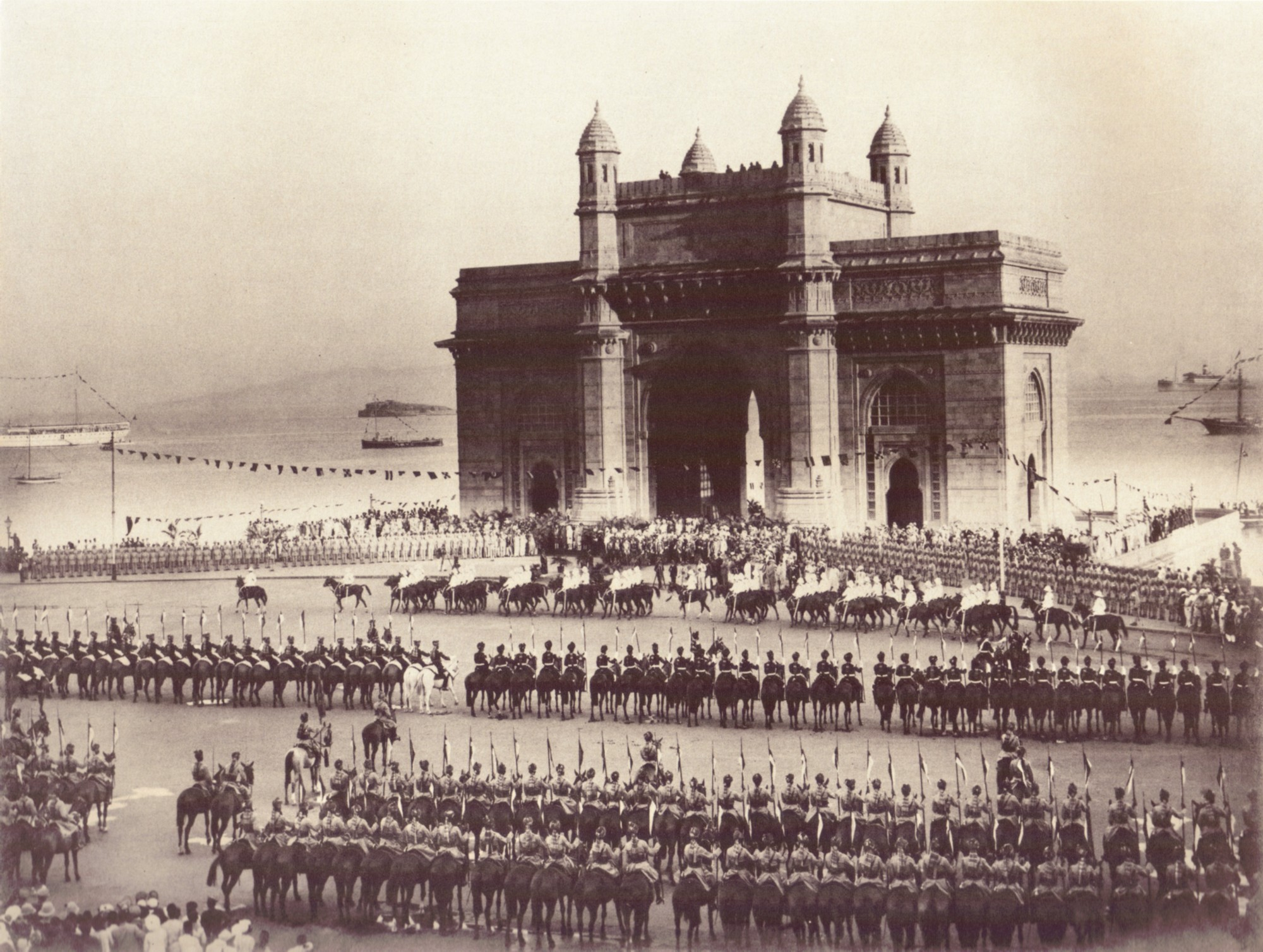 Photograph attributed to the Myers Brothers.